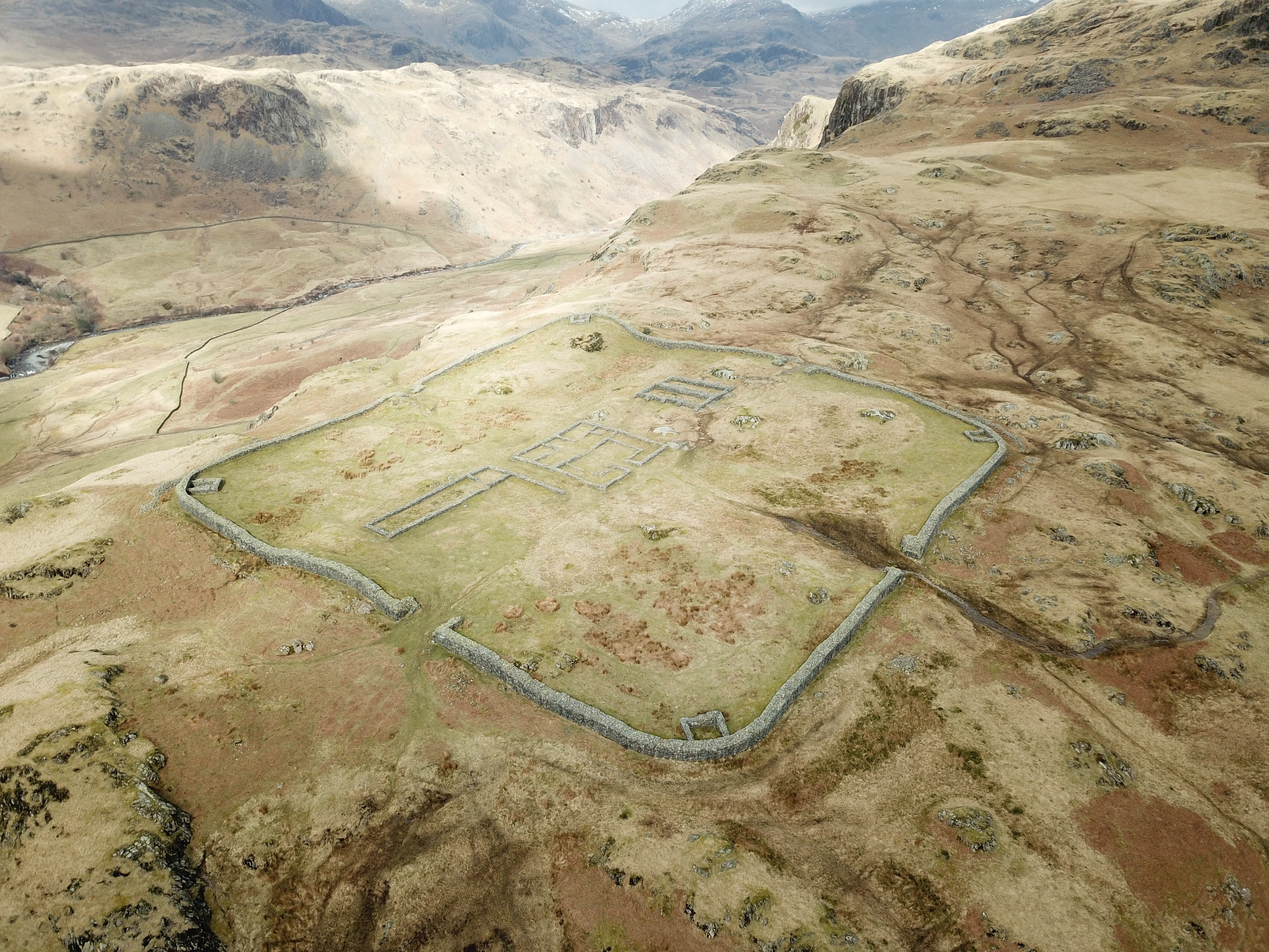 Hardknott Roman fort, bath-house, parade ground and tribunal, 4 Roman roads, Roman quarries and 3 cairns Wikidata has entry Q1584994 with data related to this item.